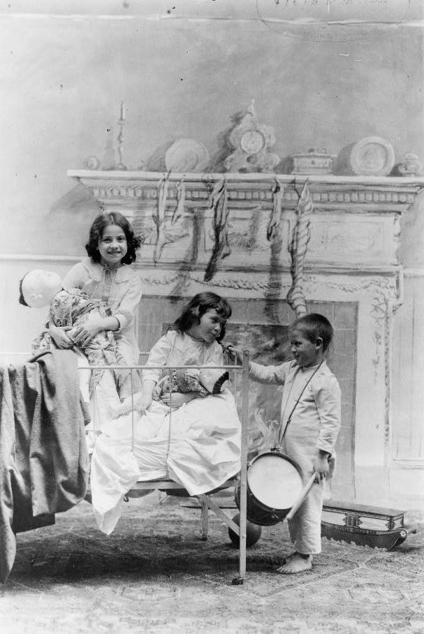 Two little girls in bed, playing with Japanese dolls; a little boy with a drum stands at the bedside. Stockings hang from the mantel behind them.